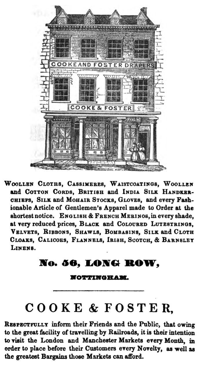 Cooke and Foster, Drapers, Long Row, Nottingham